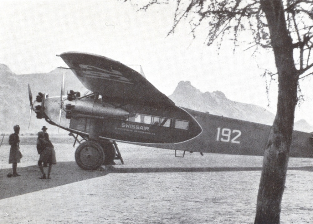 Swissair Fokker F.VIIb-3 m (CH-192) in Kassala, Sudan, February 1934. The aircraft's destination was Addis Abeba, Ethiopia. It was piloted by Walter Mittelholzer (1894-1937) who also took this photograph.